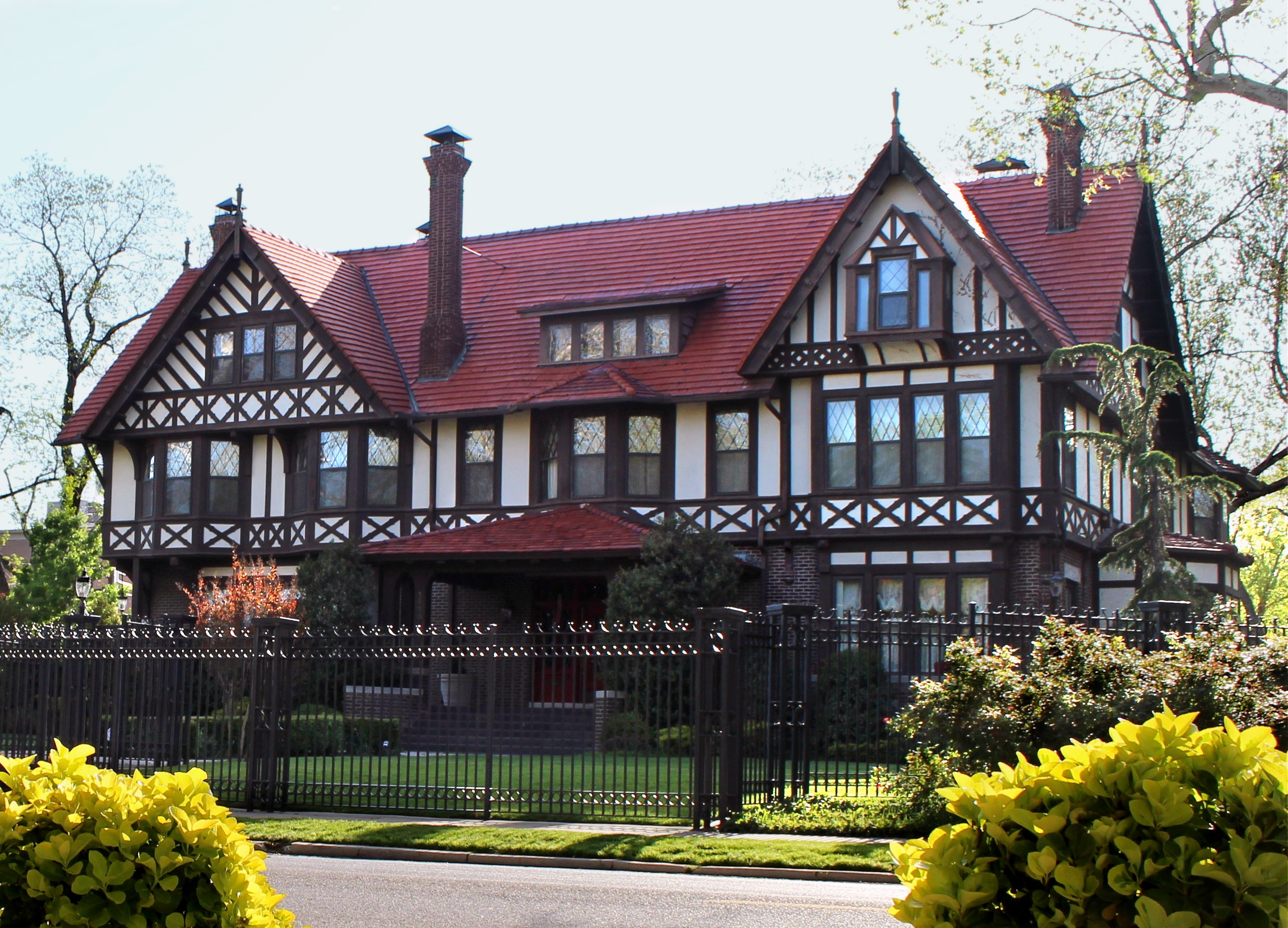 1415 N Hudson Ave, Oklahoma City, OK USA -- Heritage Hills (Year Built:1905, Single Family:9,107 sq ft )